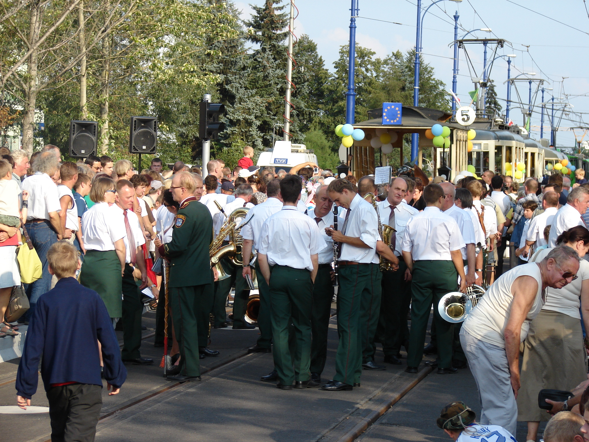 Opening of new tramway line in Poznań